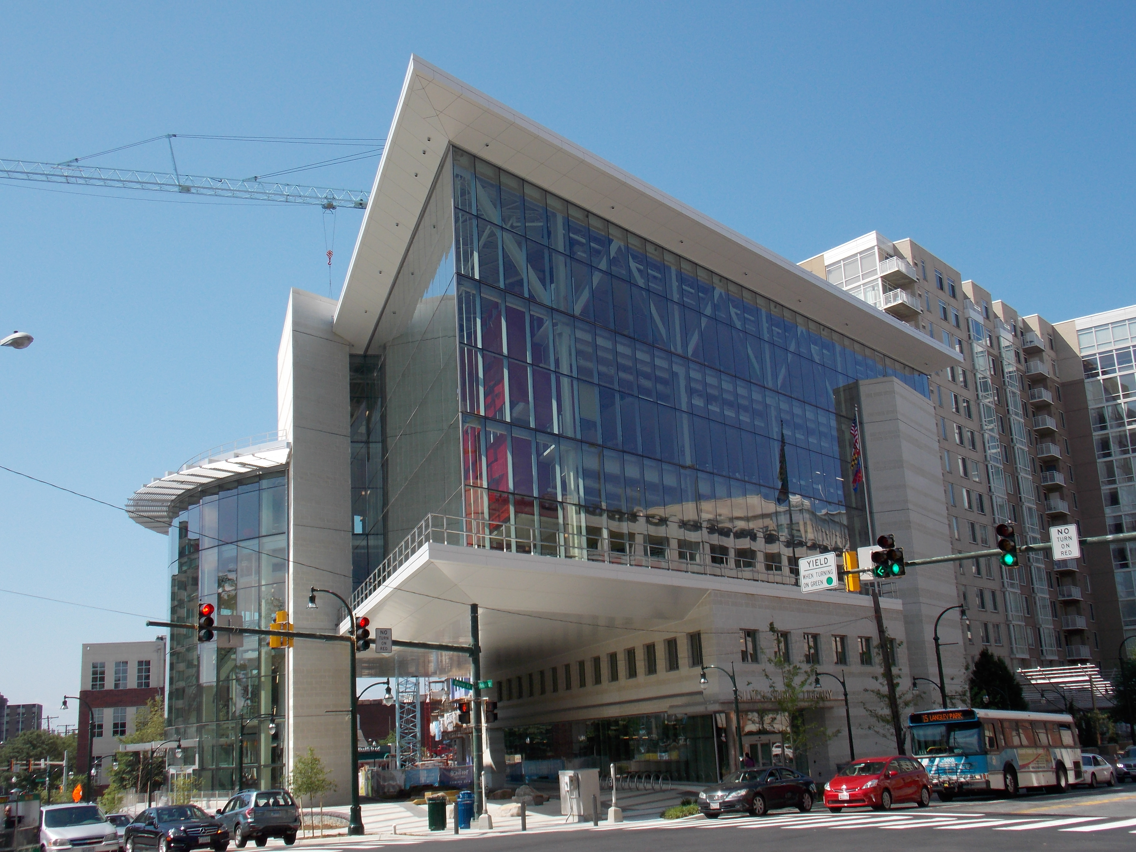 The Montgomery County Public Library in downtown Silver Spring, Maryland.